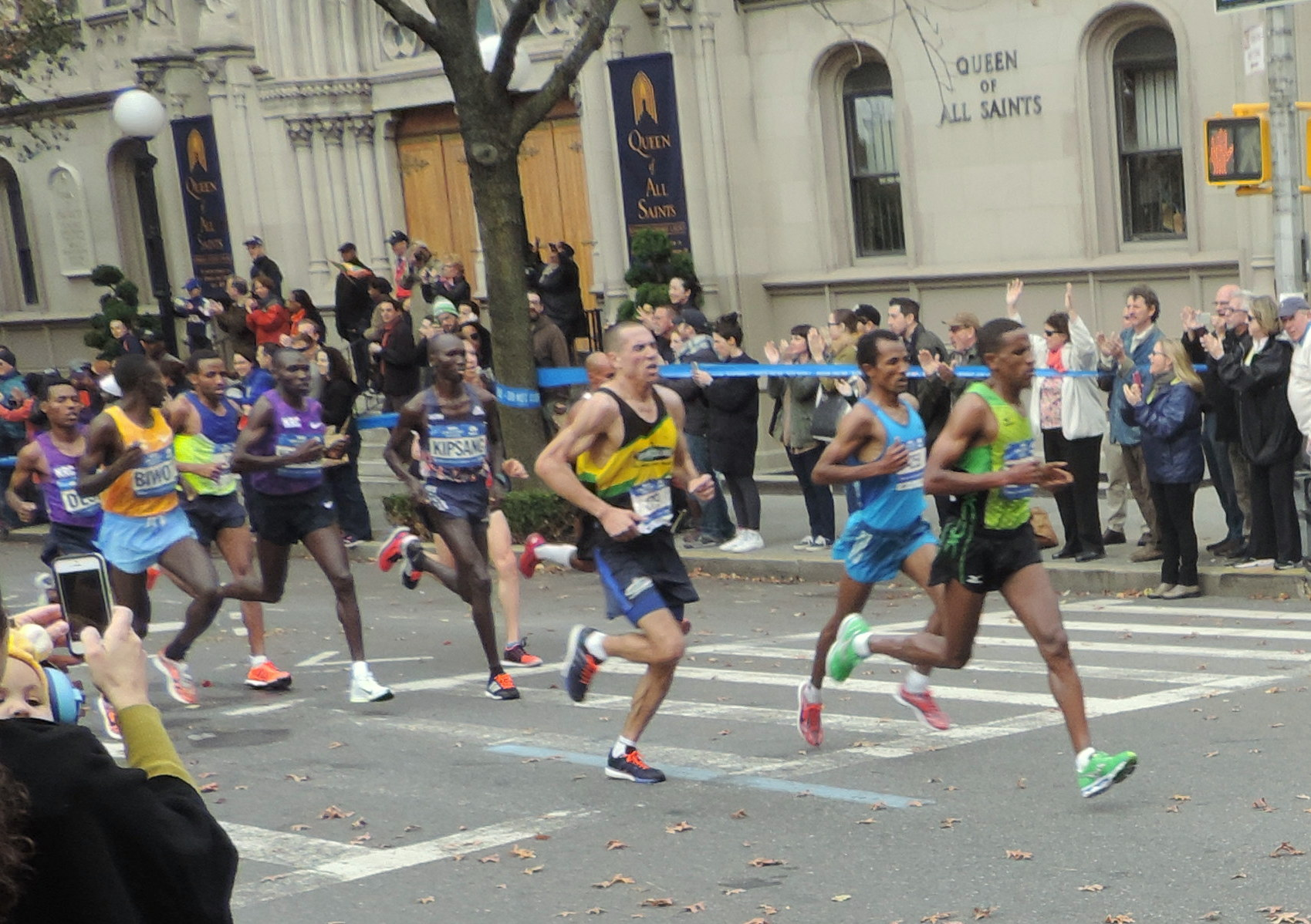 Looking northwest from Vanderbilt Avenue as male lead pack pass All Angels Academy on a cloudy midday.